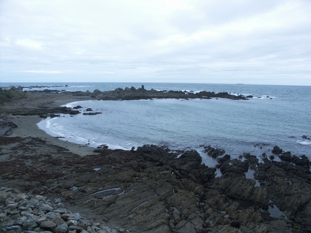 PrincessBayPICT9748.jpg - photo taken and uploaded by Paul Moss, Photographer, Artist, Paul Moss Photographer Artist NZ